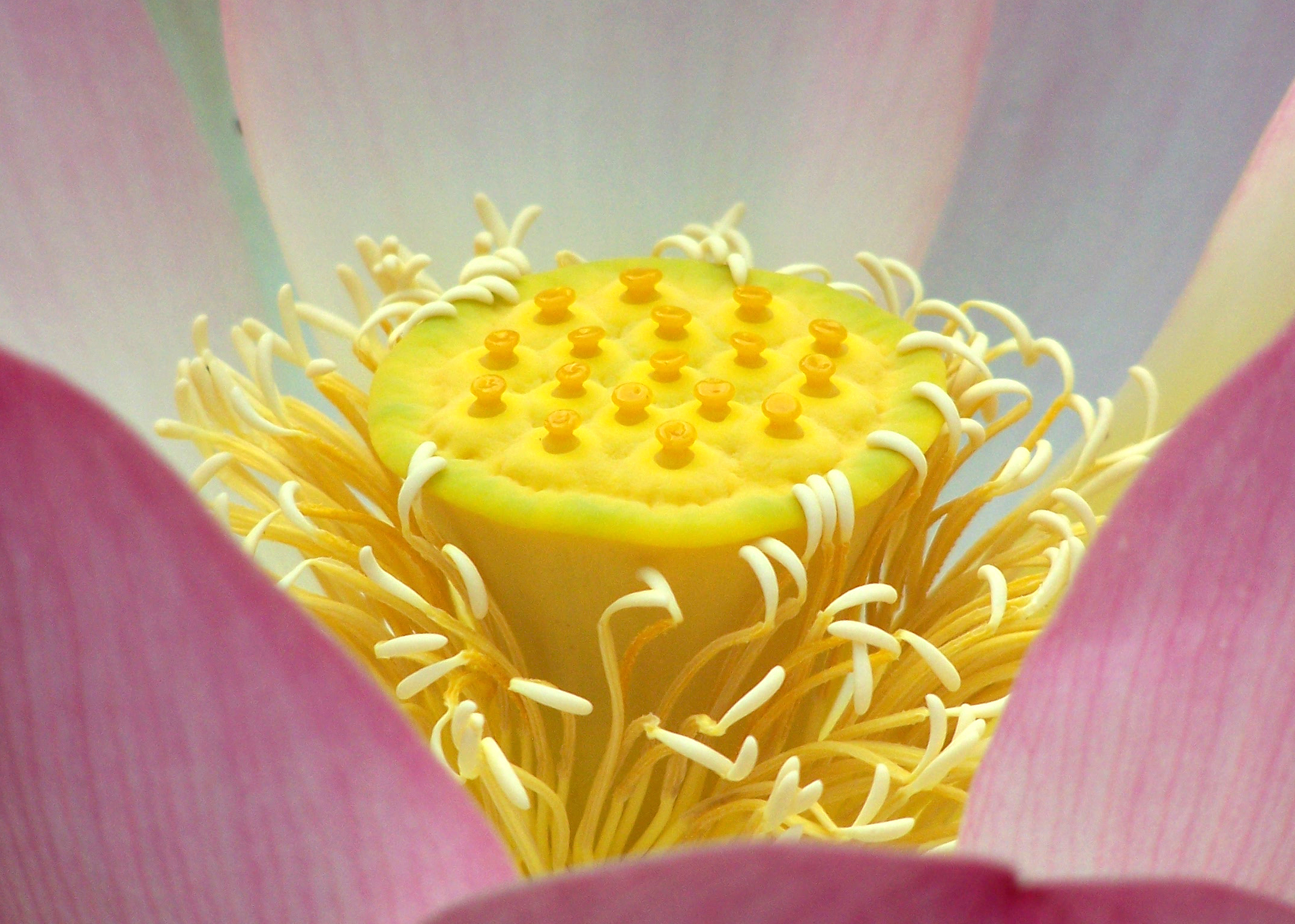 Nelumbo nucifera, bean of India.